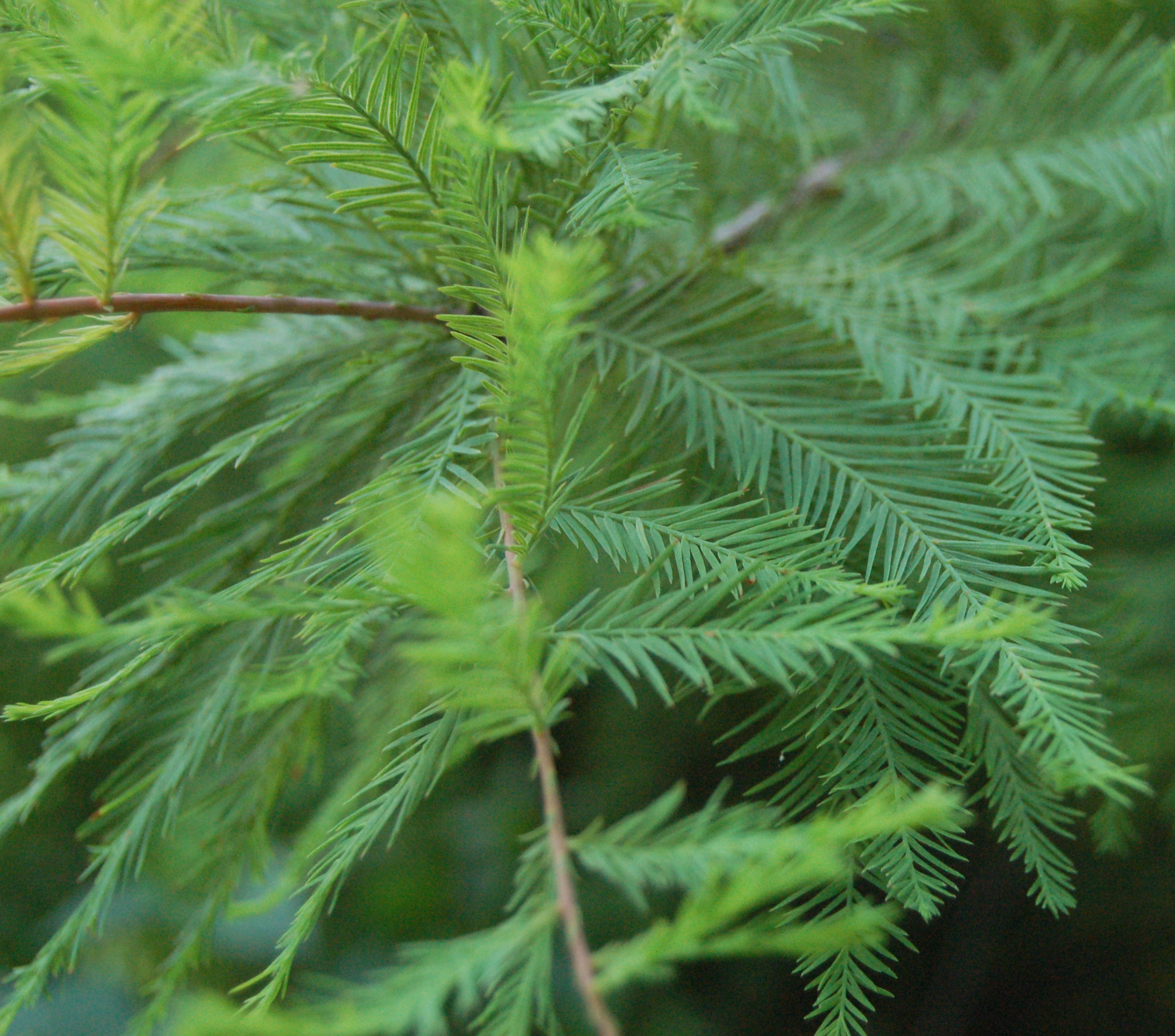 Picture of some leaves on a Bald Cypressen (Taxodium distichum en ). Photo taken in Chester County, Pennsylvania.